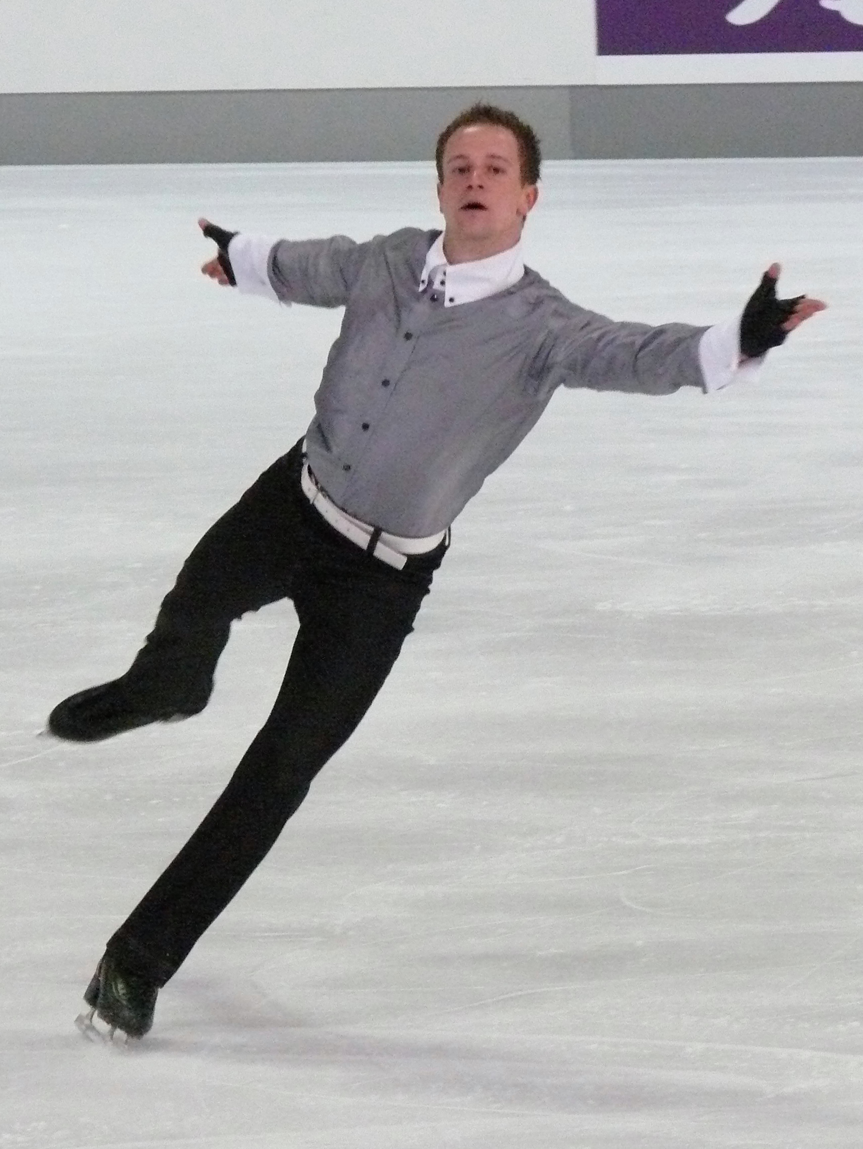 Martin Liebers (GER) at his free program at the Nebelhorntrophy 2008 in Oberstdorf, Germany